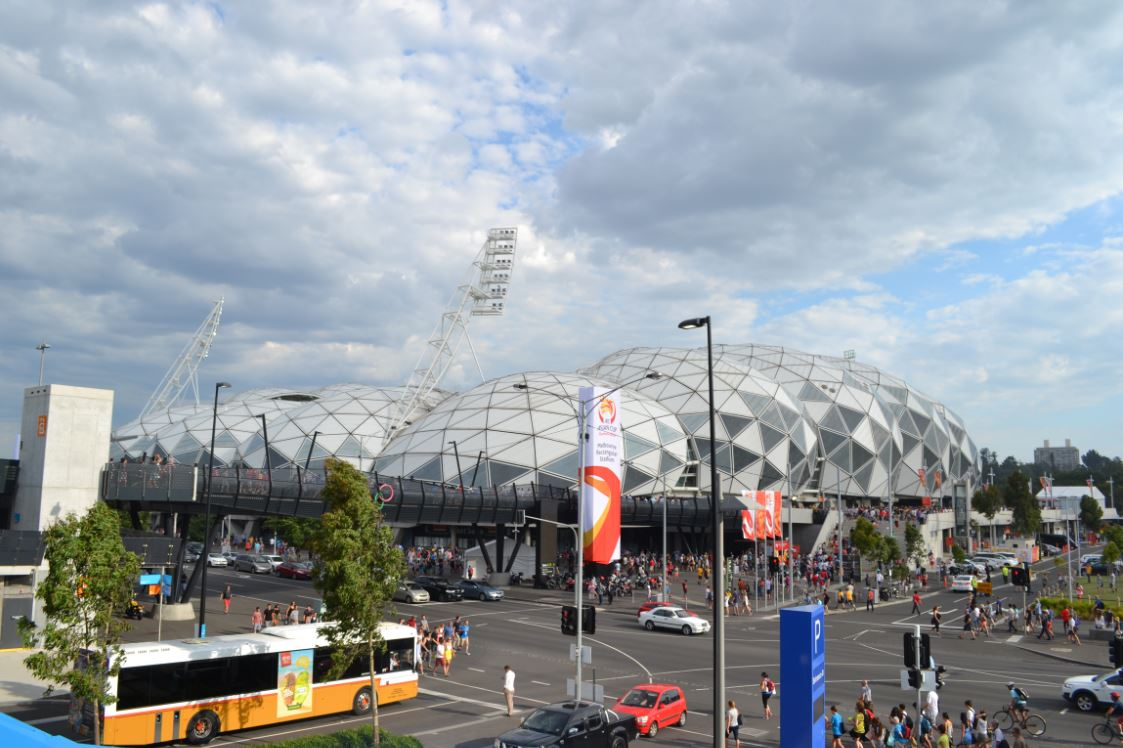 Melbourne Rectangular Stadium, aka AAMI Park